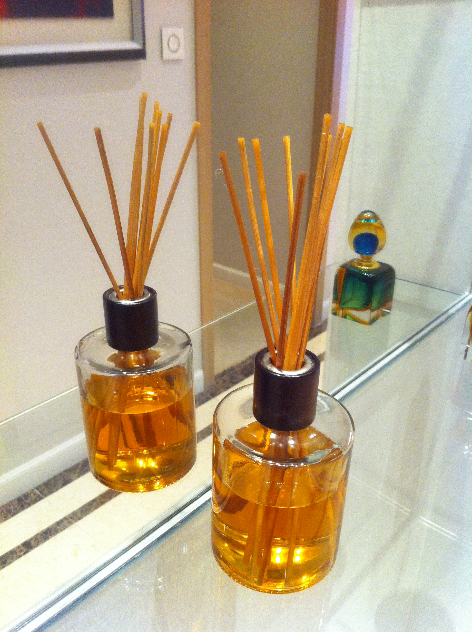 香港島英皇集團zh:樓花示位